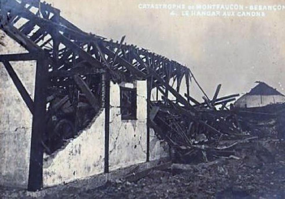 The Fort of Montfaucon, after the explosion, in 1906. The Fort is located near Besançon (Doubs, France)